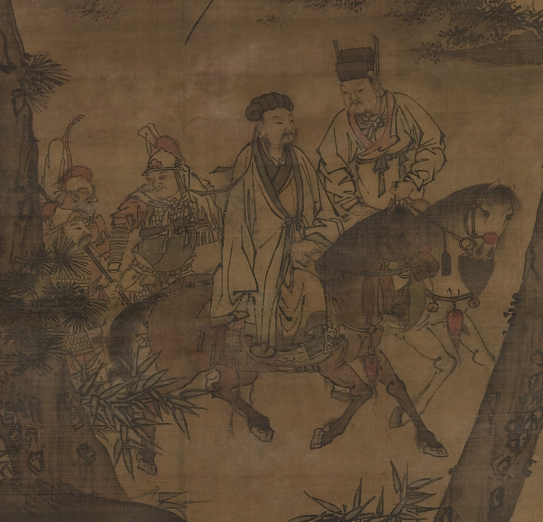 "The name Kongming in the title of this painting refers to one of the greatest military strategists in Chinese history, Zhuge Liang. Known also as a statesman, diplomat and prose writer, Zhuge Liang lived in the early 3rd century, when China was divided among rival lords. Although Zhuge Liang resided in the mountains, living as a farmer, he also practised the occult arts of Daoism and kept himself well informed about the political situation in his country. The story goes that one of the contending warlords of the era, Liu Bei, wishing to engage his services, visited his rustic retreat three times. Each time Liu Bei appealed to Zhuge Liang. On the third occasion, satisfied by Liu Bei’s perserverance, Zhuge Liang agreed to act as his advisor – and he left the mountains. This is the moment depicted in the painting: Zhuge Liang rides the horse at the back of the group; Liu Bei is the man in the tall hat beside him; the other two riders, to the front, are Liu Bei’s generals." —Chester Beatty Library